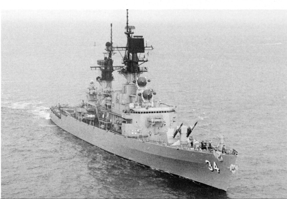 The U.S. Navy guided missile cruiser USS Biddle (DLG-34) underway.